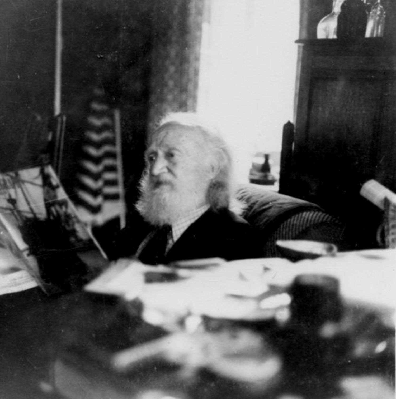 Photographed at his home in Woldingham, Surrey, UK